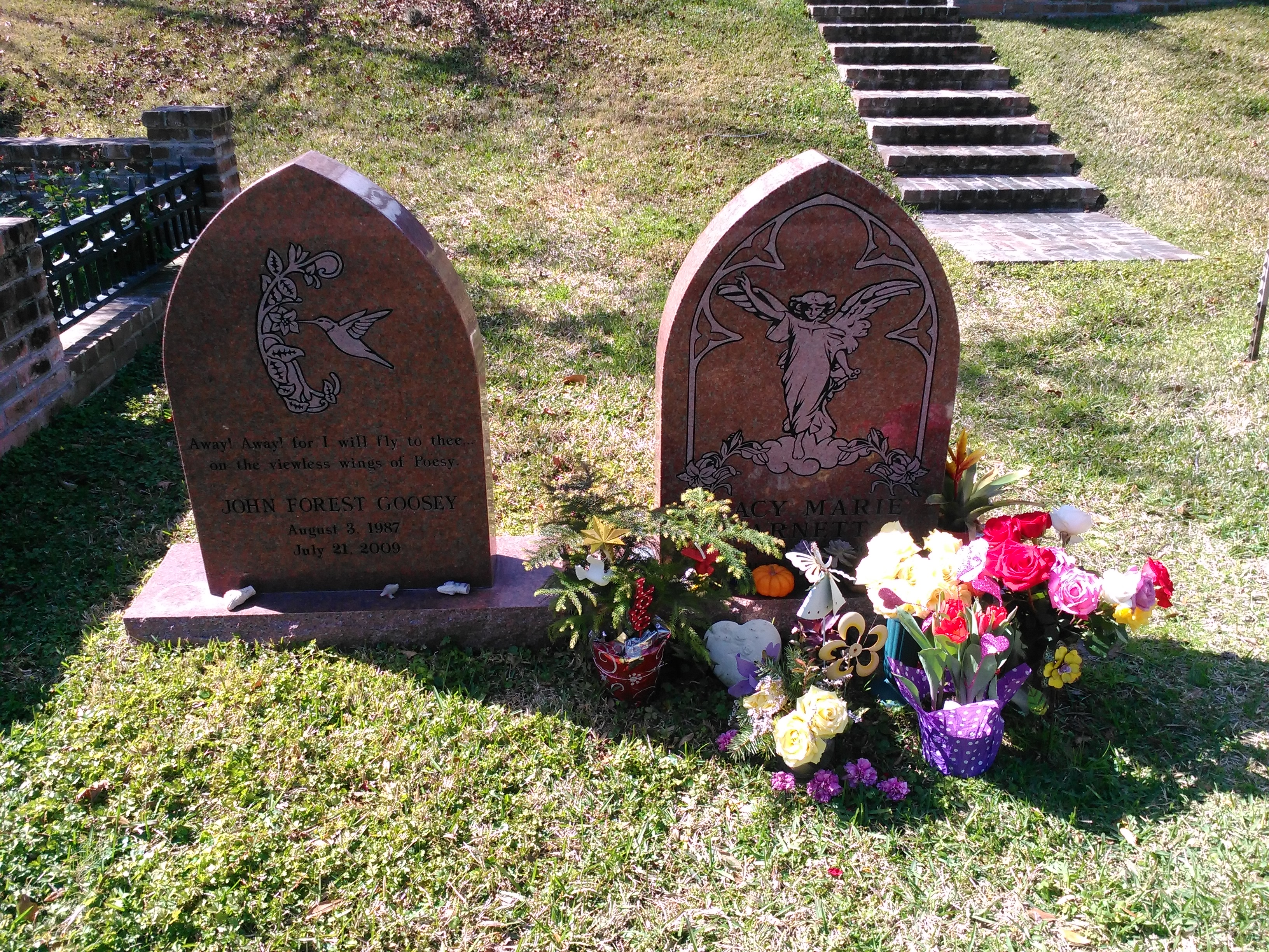 Graves of John Goosey and Stacy Barnett